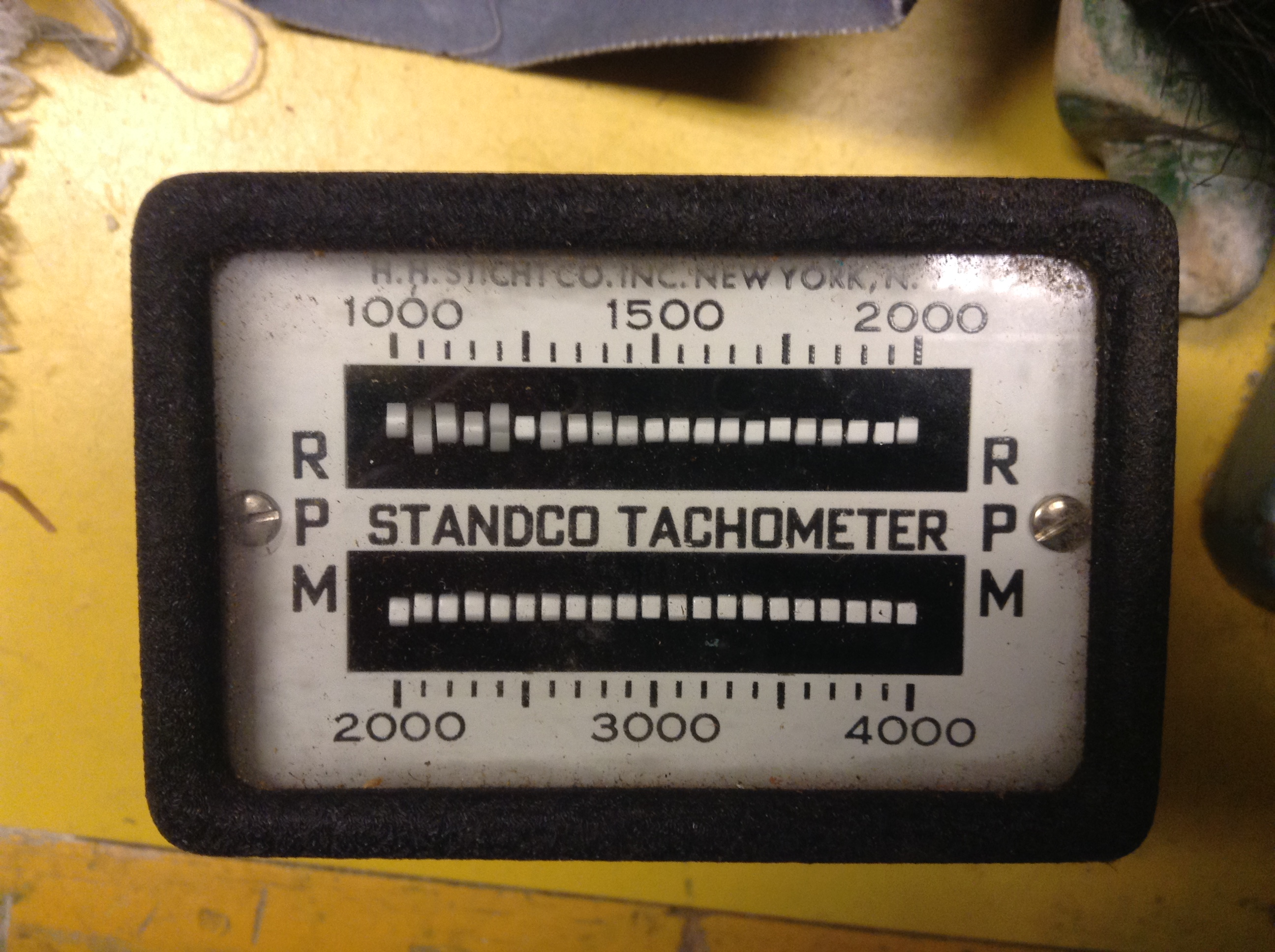 Analog tachometer, that uses vibrating metal bars that vibrate at the frequency of the engine.